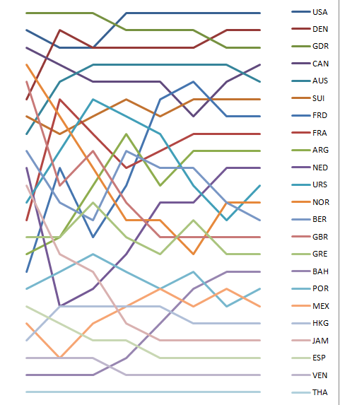 1968 Olympic Sailing Daily Standings Dragon